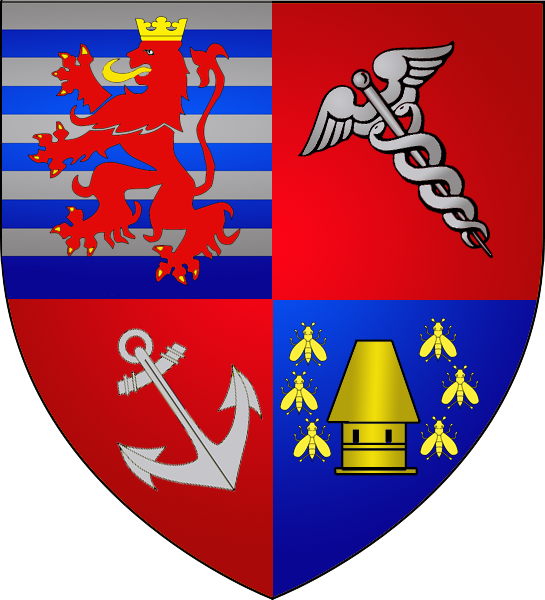 Coat of arms of the municipality of Wiltz, Luxembourg